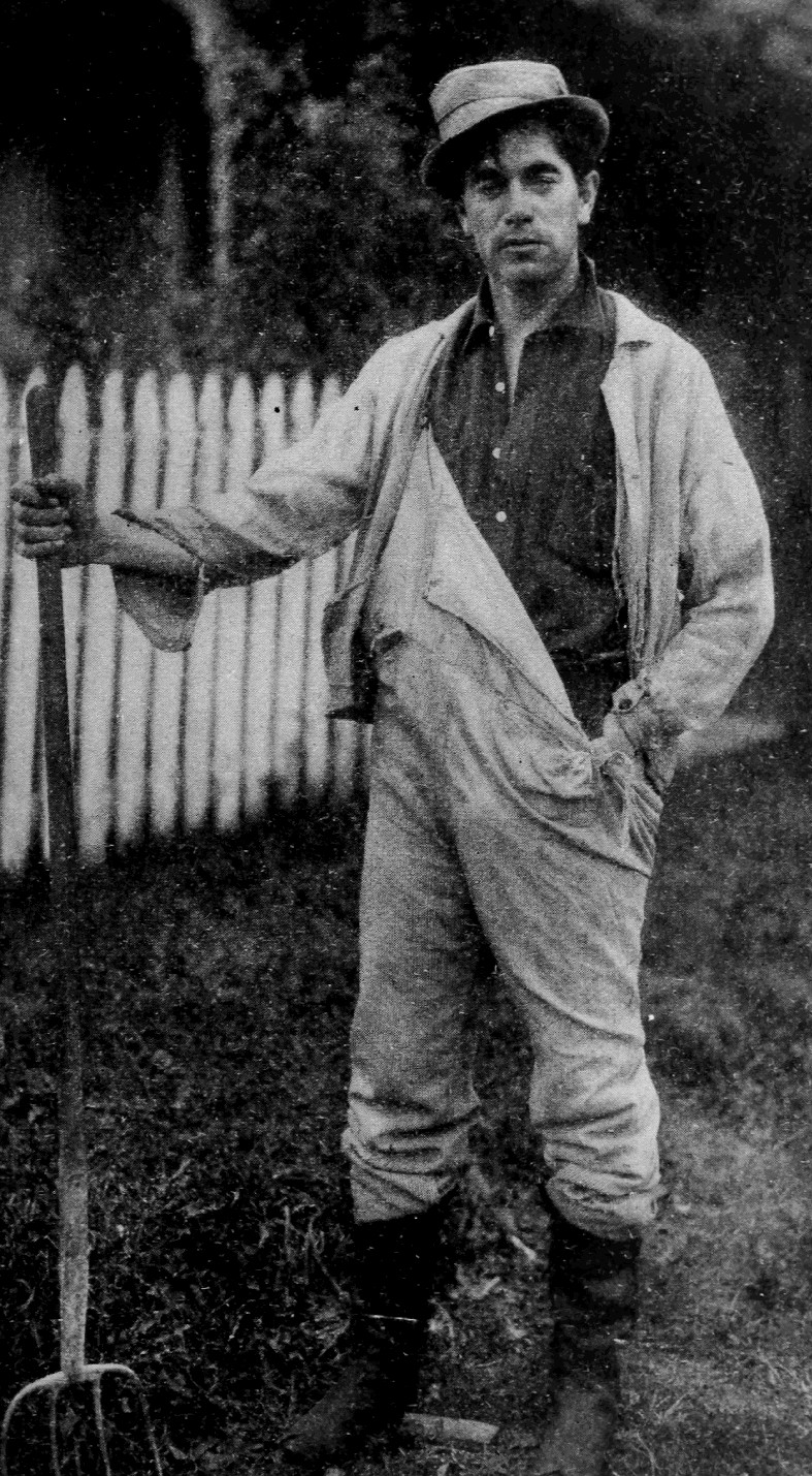 Photo of Arthur V. Johnson.